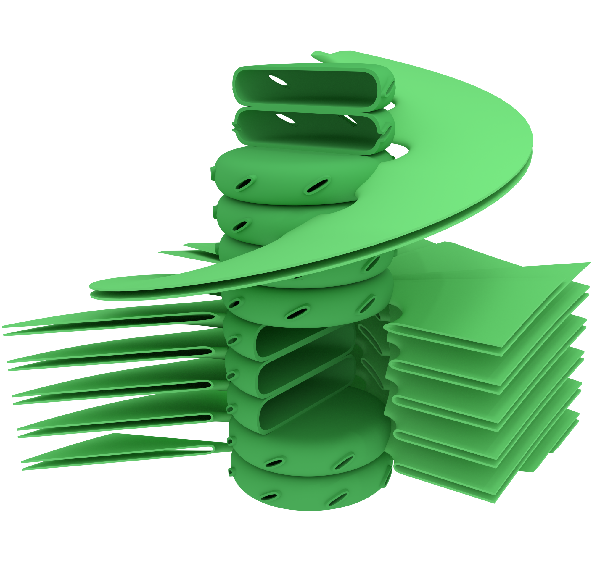 PNG rendering of a thylakoid stack. Modeled and rendered in Blender.